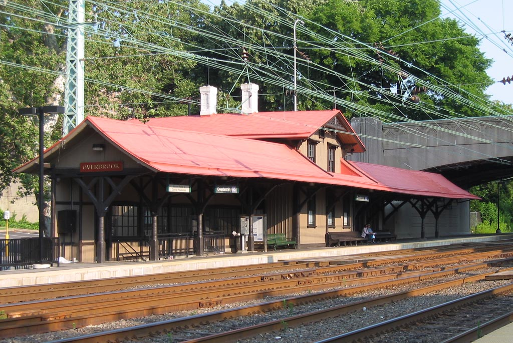 Photo of Overbrook railroad station in Philadelphia.